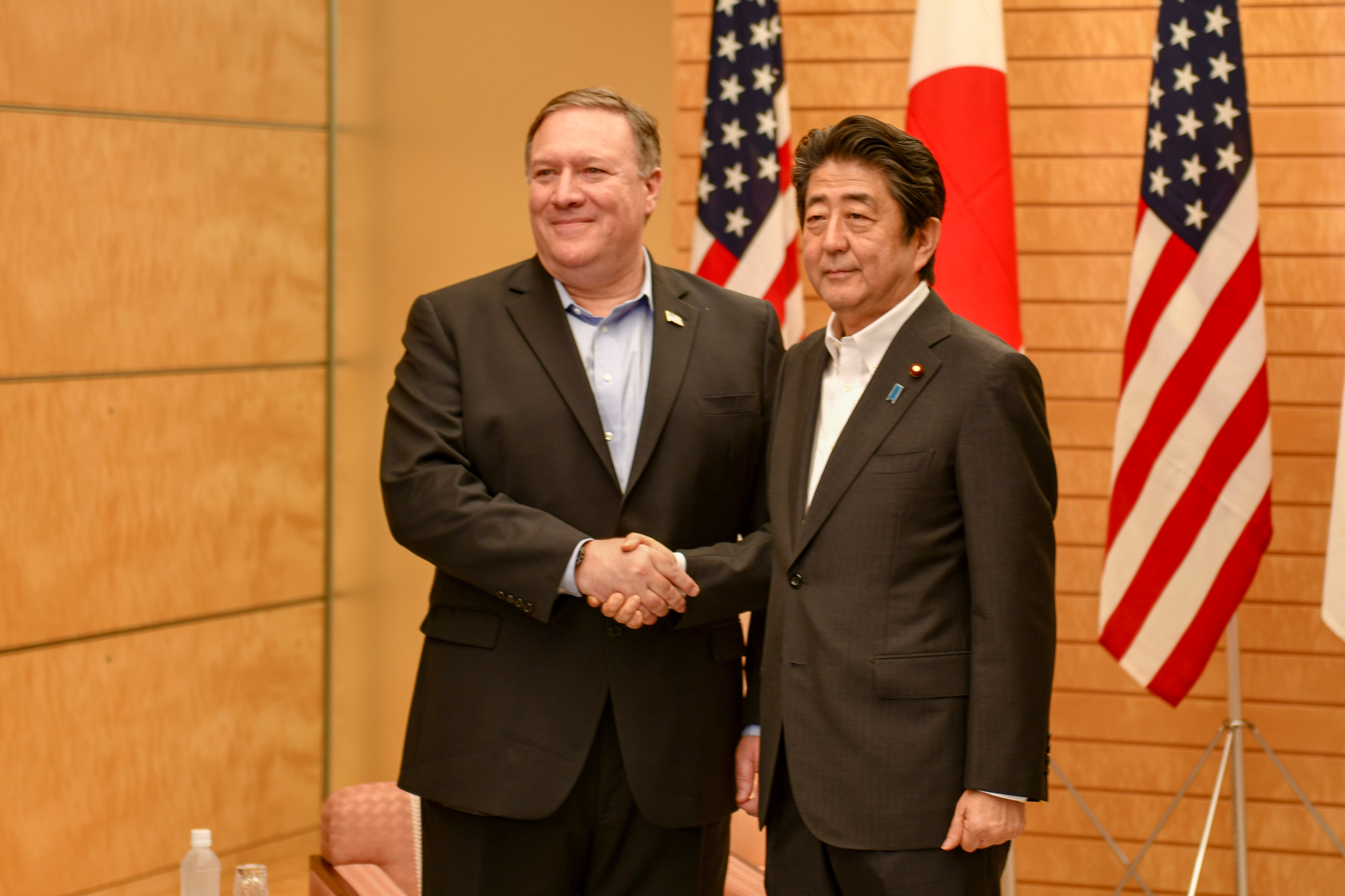 U.S. Secretary of State Michael R. Pompeo meets with Japanese Prime Minister Shinzo Abe on July 7, 2018 in Tokyo, Japan, to discuss North Korea and the bilateral U.S.-Japan alliance. (State Department photo/ Public Domain)